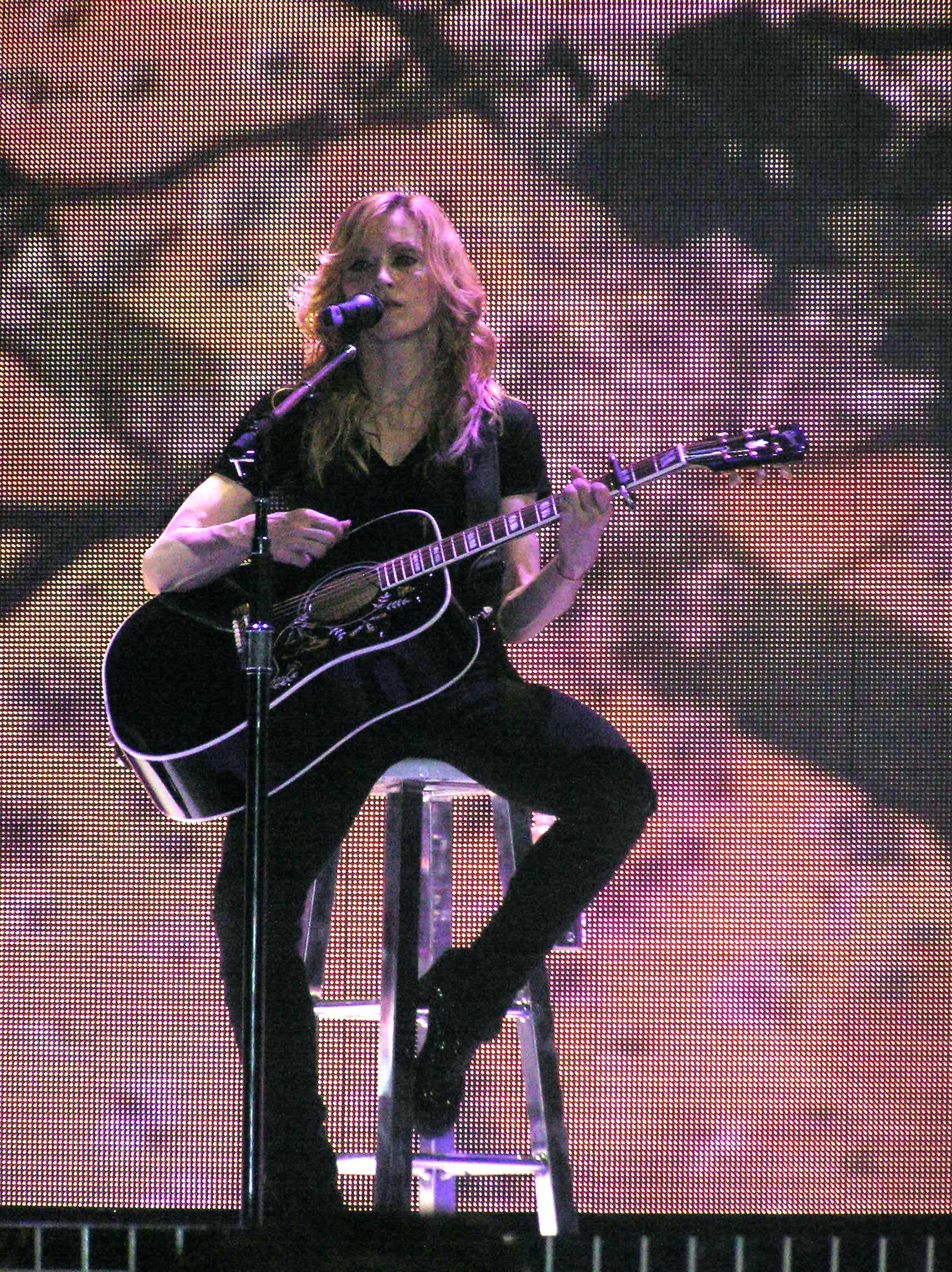 Madonna Concert